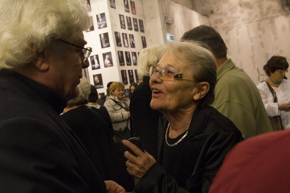 Gábor Székely and Mari Törőcsik.